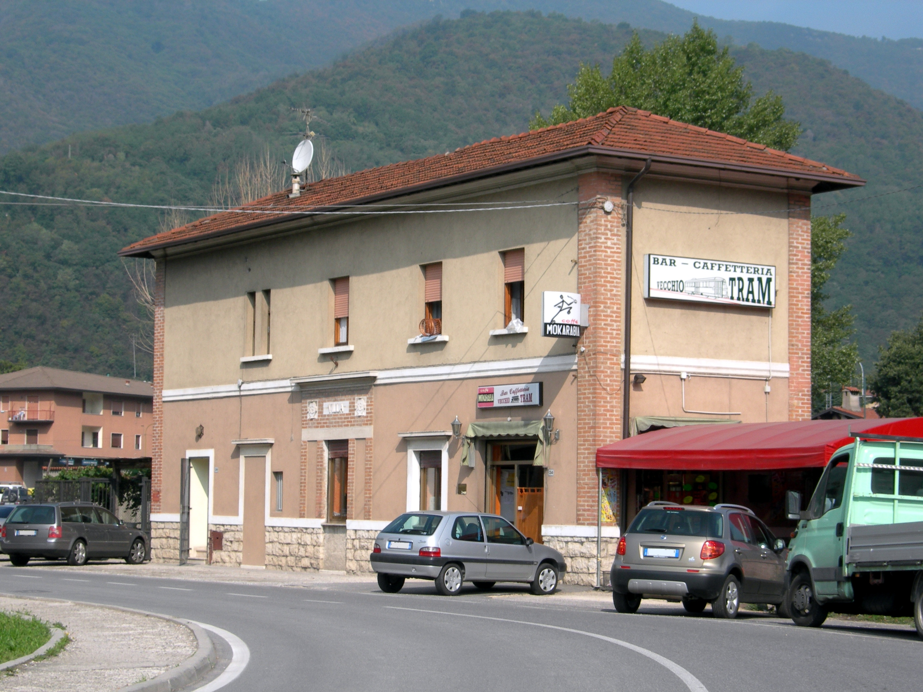 Tramway station in the town of Villa Carcina